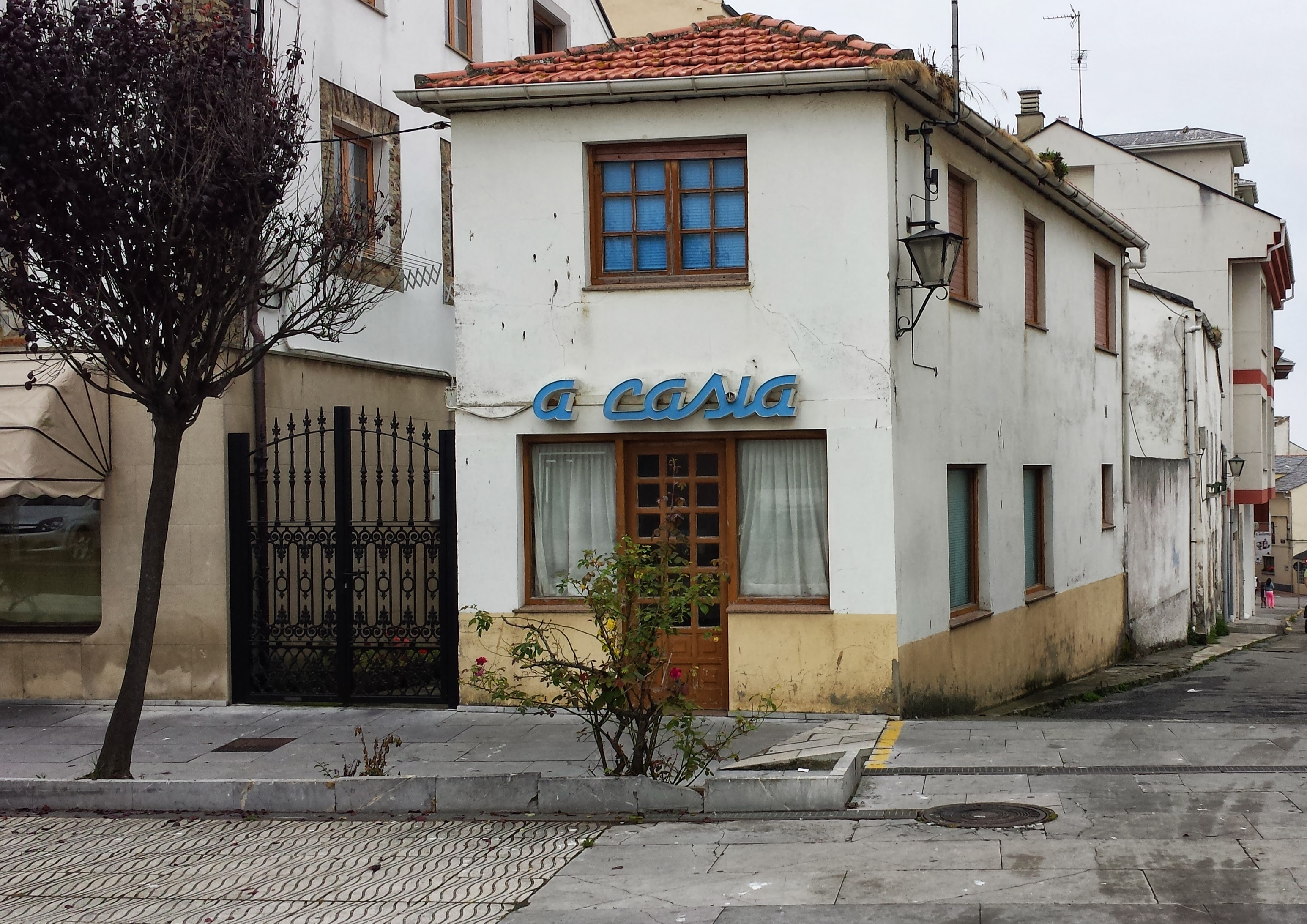 A casía, en Tapia de Casariego